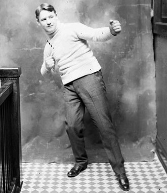 Full-length portrait of pugilist Young Corbett wearing a light colored sweater and dark pants, leaning back with his left fist forward, standing in a stairwell hallway in the Chicago Daily News building in Chicago, Illinois.